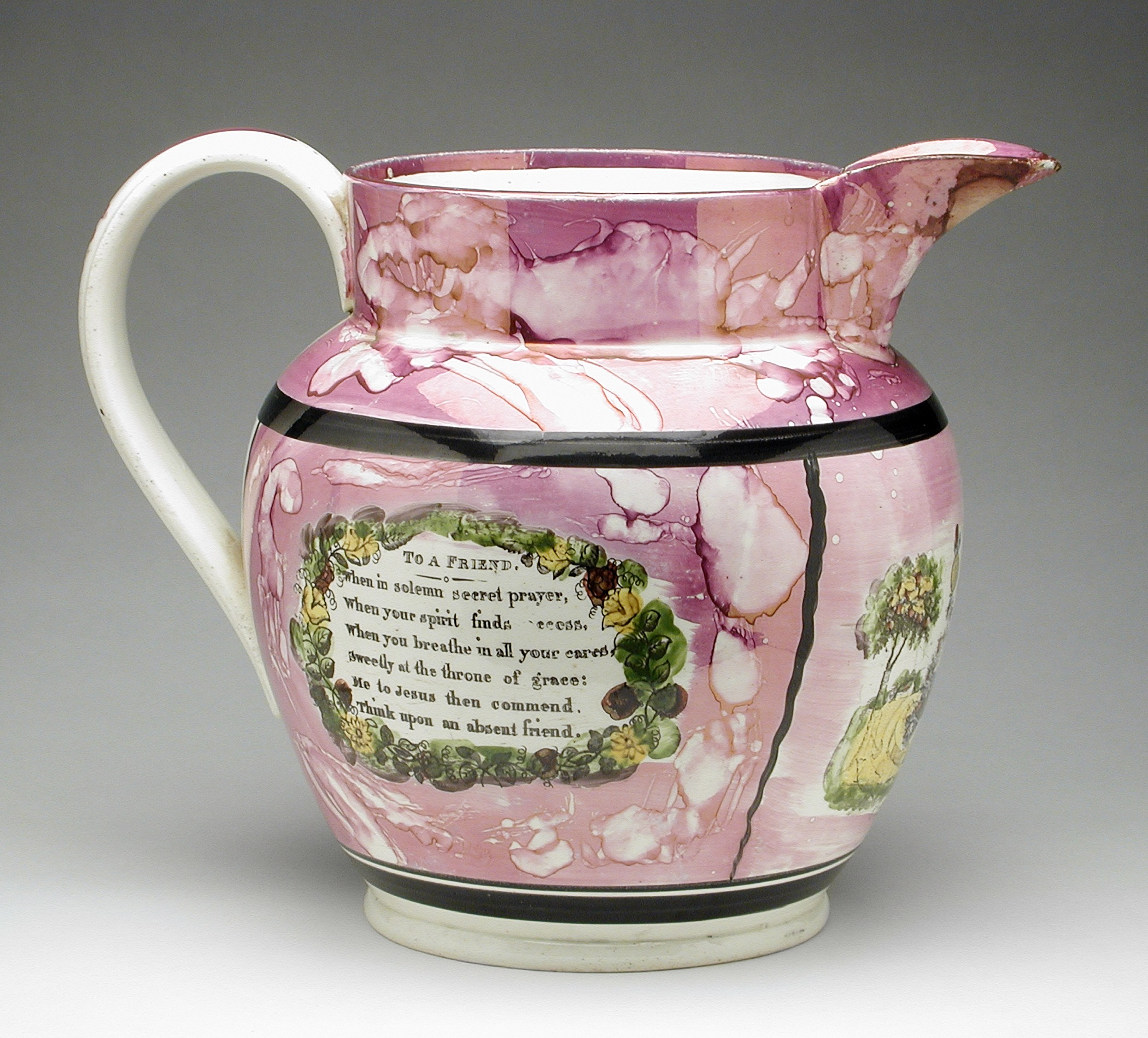 England, Sunderland, circa 1820 Furnishings; Serviceware Earthenware, lustre Height: 9 in. (22.86 cm); Diameter with handle: 11 1/4 in. (28.58 cm) Gift of Mrs. Anna Bing Arnold (M.73.28.4) Decorative Arts and Design